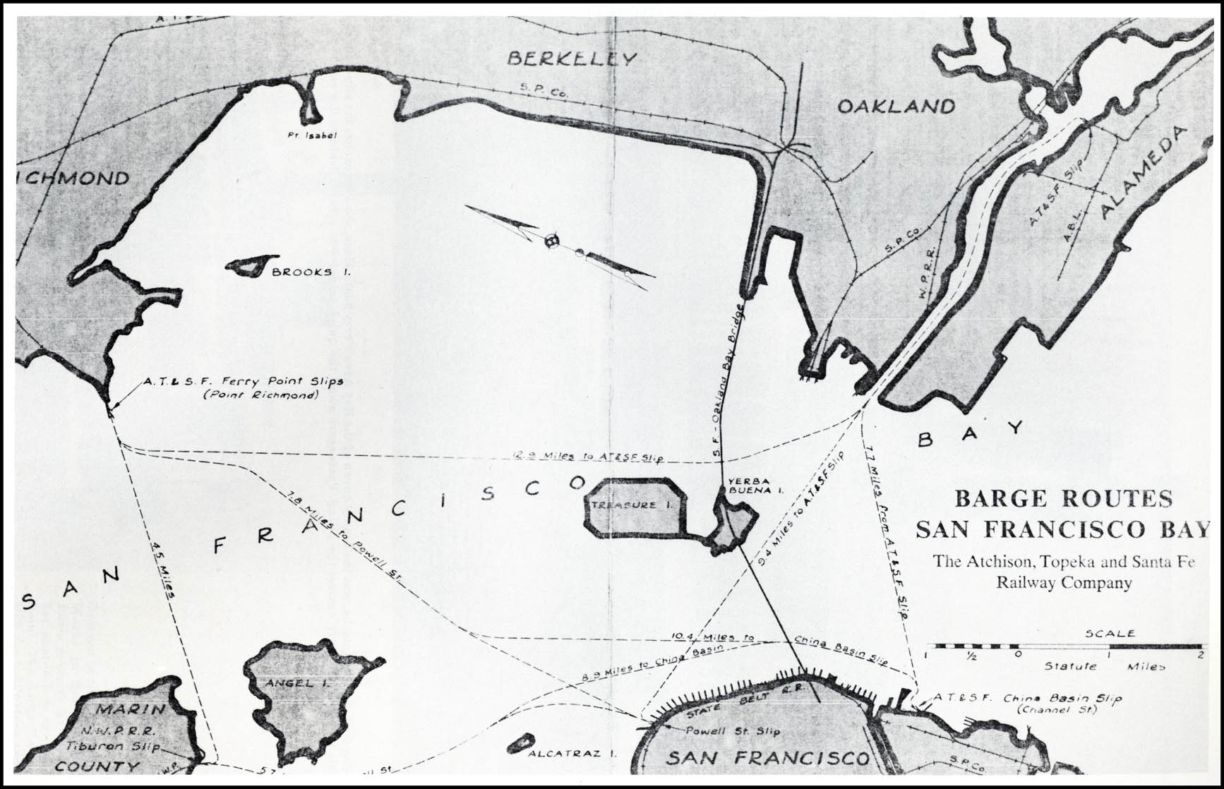 Route map of the barge routes in the San Francisco Bay used by the Atchison, Topeka and Santa Fe Railway Company